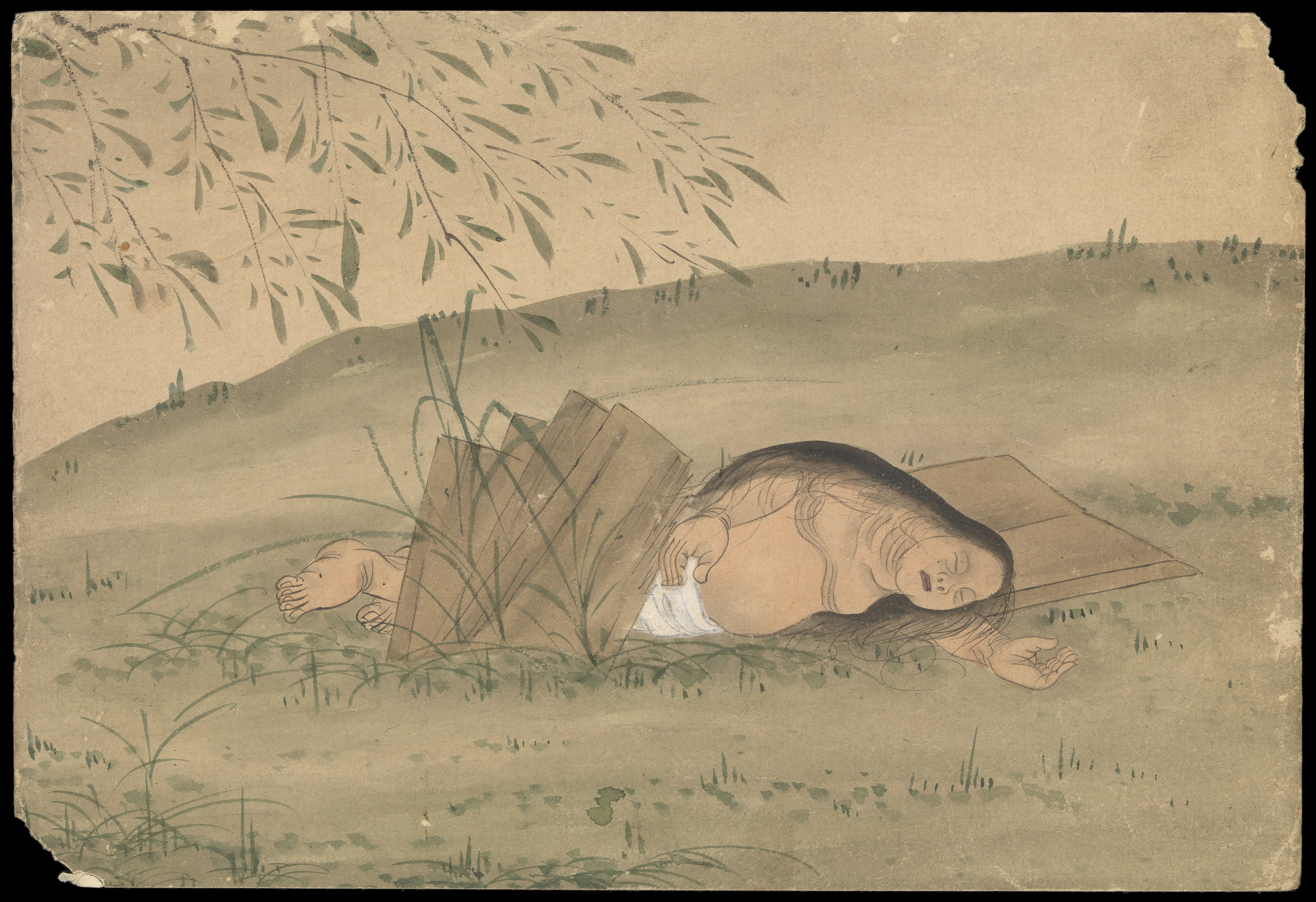 Kusozu: the death of a noble lady and the decay of her body. Third in a series of 9 watercolour paintings In this painting, her body is out of doors, naked apart from a loincloth, on a mat, the lower part of which is folded up over her legs; her skin now has flesh tones. Iconographic Collections